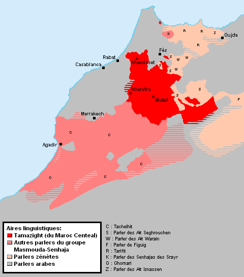 Linguistic area in Morocco and north-eastern Algeria: expansion of Central Atlas Tamazight and of other Berber variants or languages.